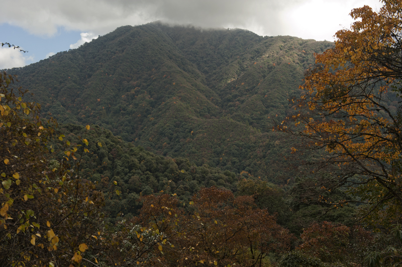 View of eaglenest forest from sunderview